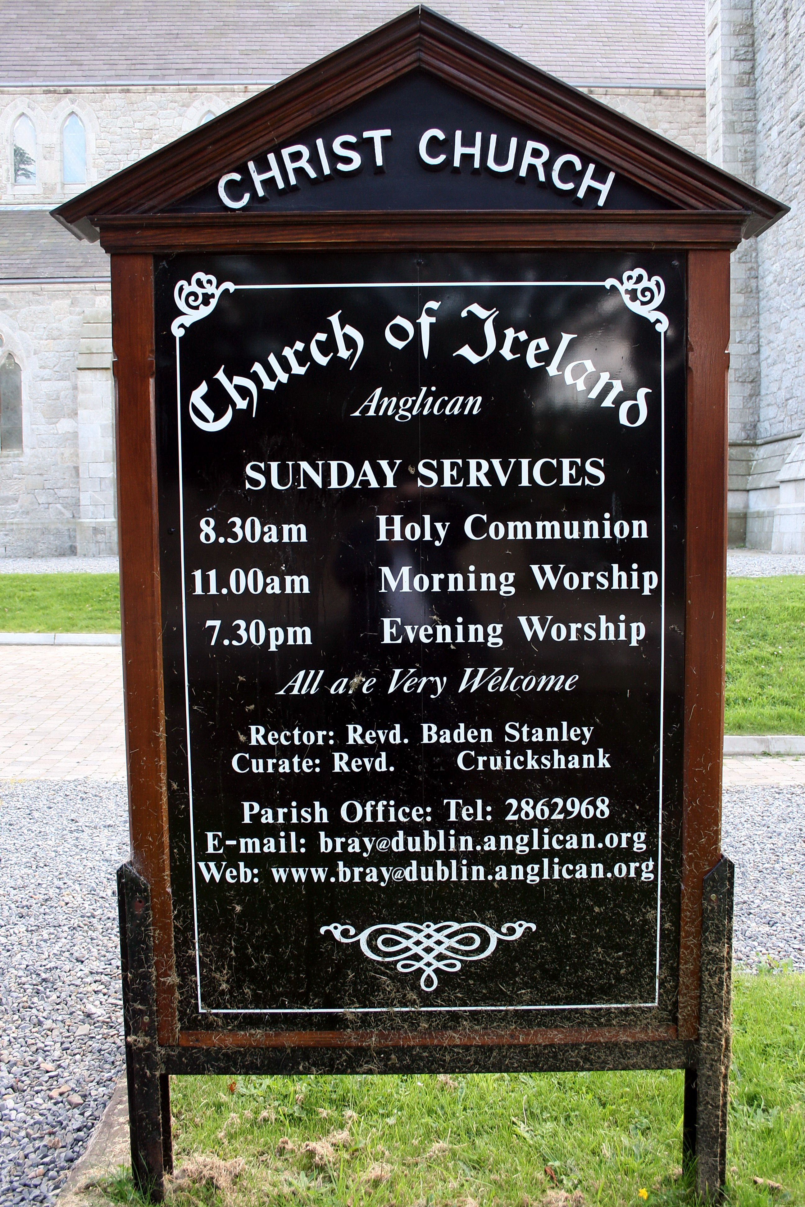 Sign